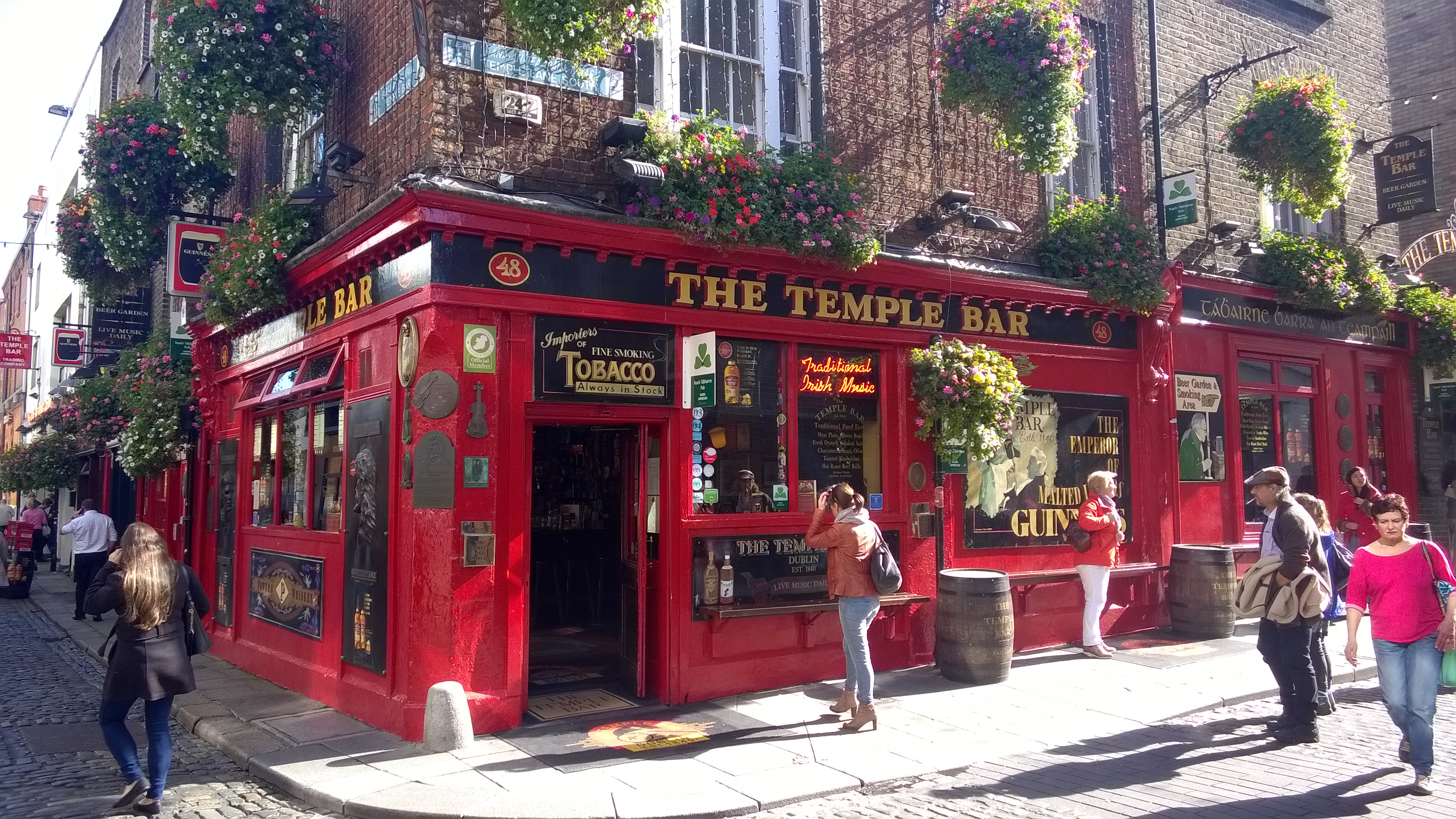 A view of the Temple Bar public house.